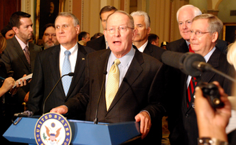 Sen. Alexander Reelected to Senate Republican Leadership.